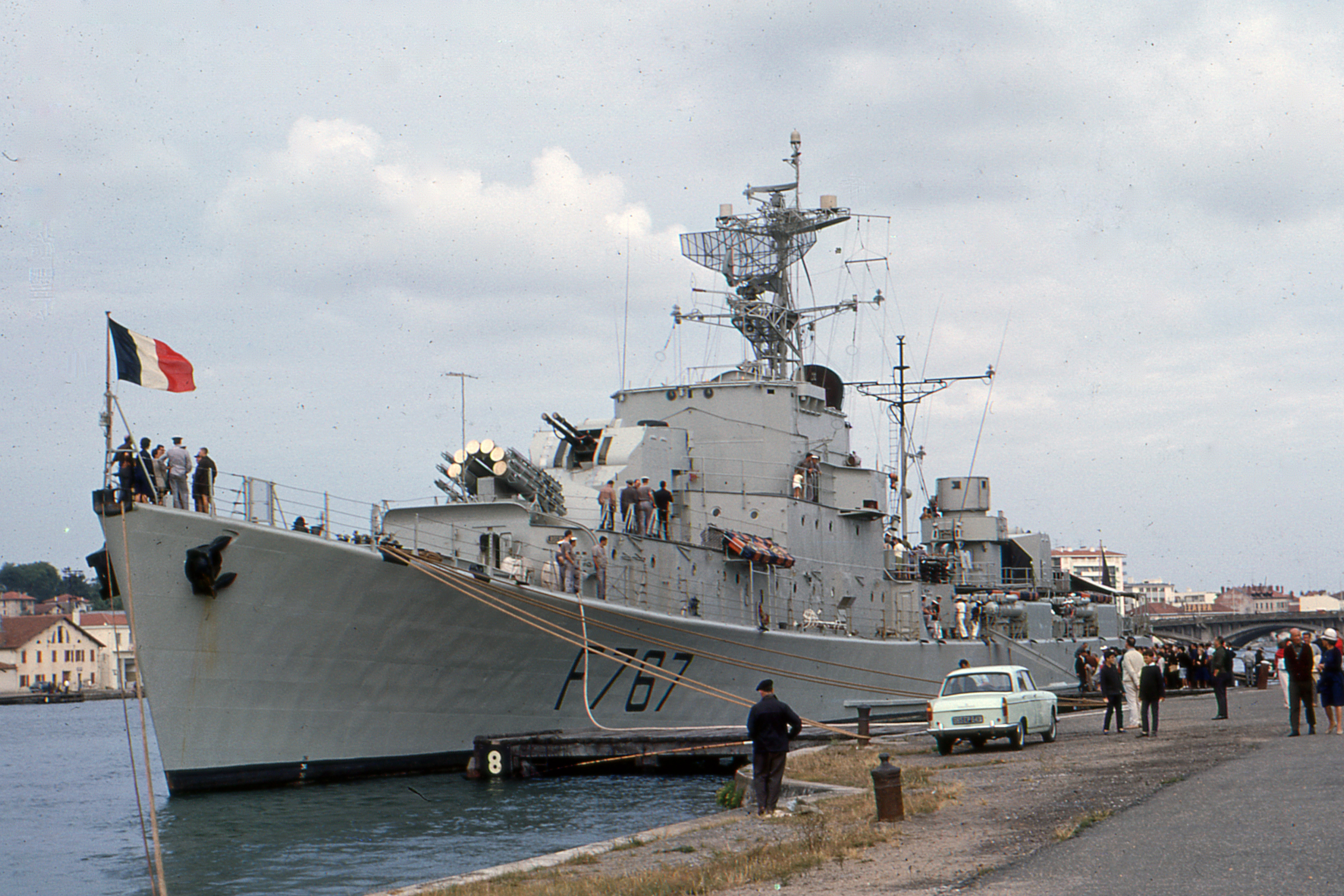 The destroyer escort Escorteur rapide Le Gascon F767, type E-52A, disarmed on September 26 1977.